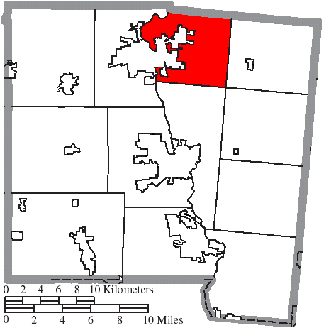 Map of the municipal and township boundaries of Miami County, Ohio, United States, as of the 2000 census, with the location of Springcreek Township highlighted. Township borders are shown only in unincorporated areas in order to differentiate incorporated and unincorporated areas more clearly.